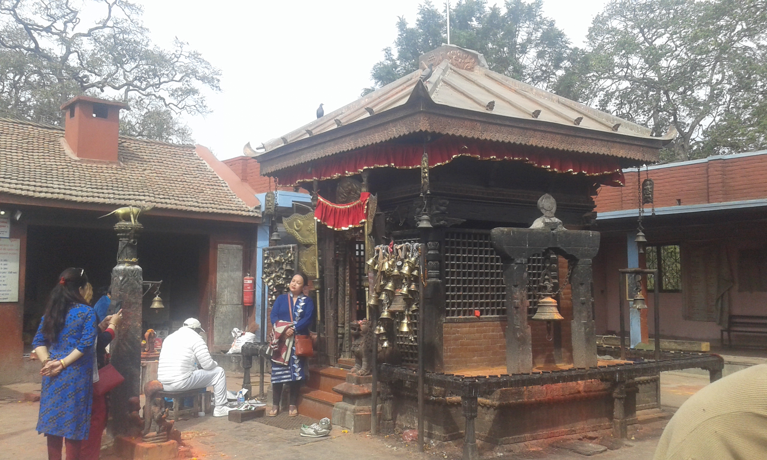 KaryaBinayak Temple, Bungmati